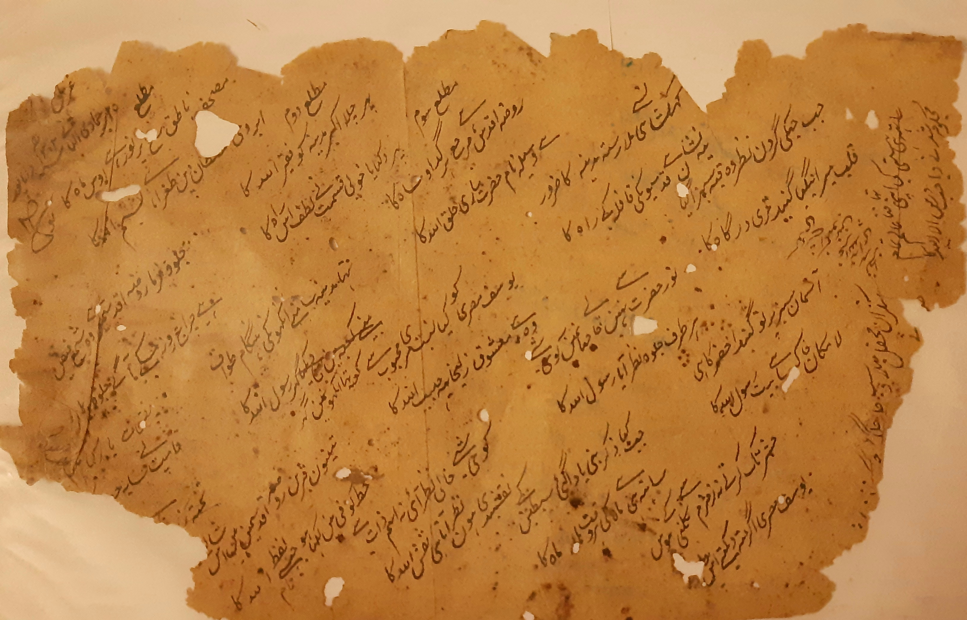 Manuscript of Shah Akbar Danapuri Urdu ghazal.